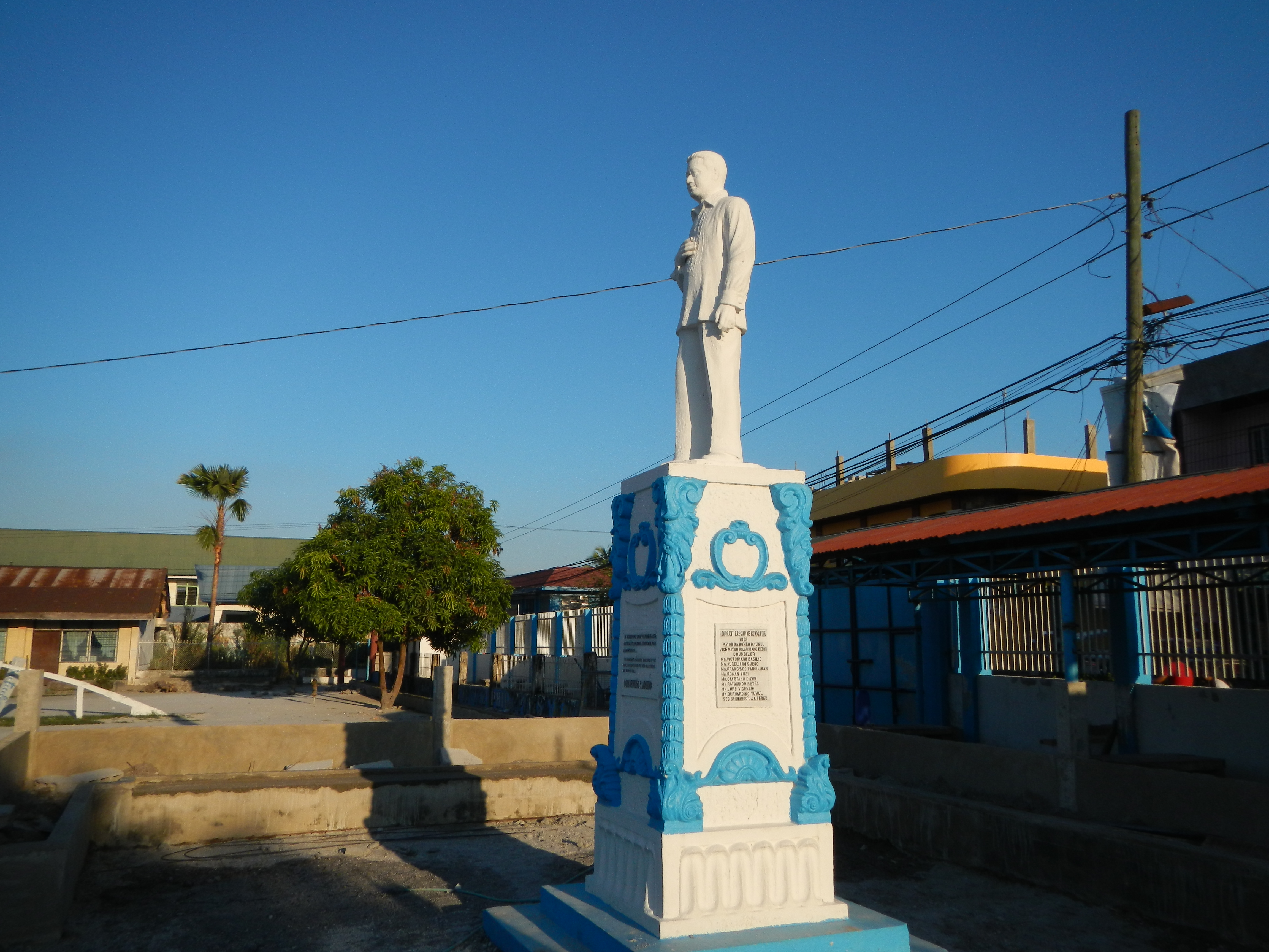 Benigno Aquino, Sr. - Benigno Simeon "Igno" Aquino, Sr. (September 3, 1894 – December 20, 1947), also known as Benigno S. Aquino or Benigno S. Aquino, Sr., was a Filipino politician who served as Speaker of the National Assembly of the Second Philippine Republic from 1943 to 1944.[1] Concepcion, Tarlac[2] is a first class urban municipality in the province of Tarlac, Philippines; in the 2010 census, it has a population of 139,832 people. [3][4]Geographical coordinates are 15° 19' 31" North, 120° 39' 25" East and its original name (with diacritics) is Concepcion. [5][6]